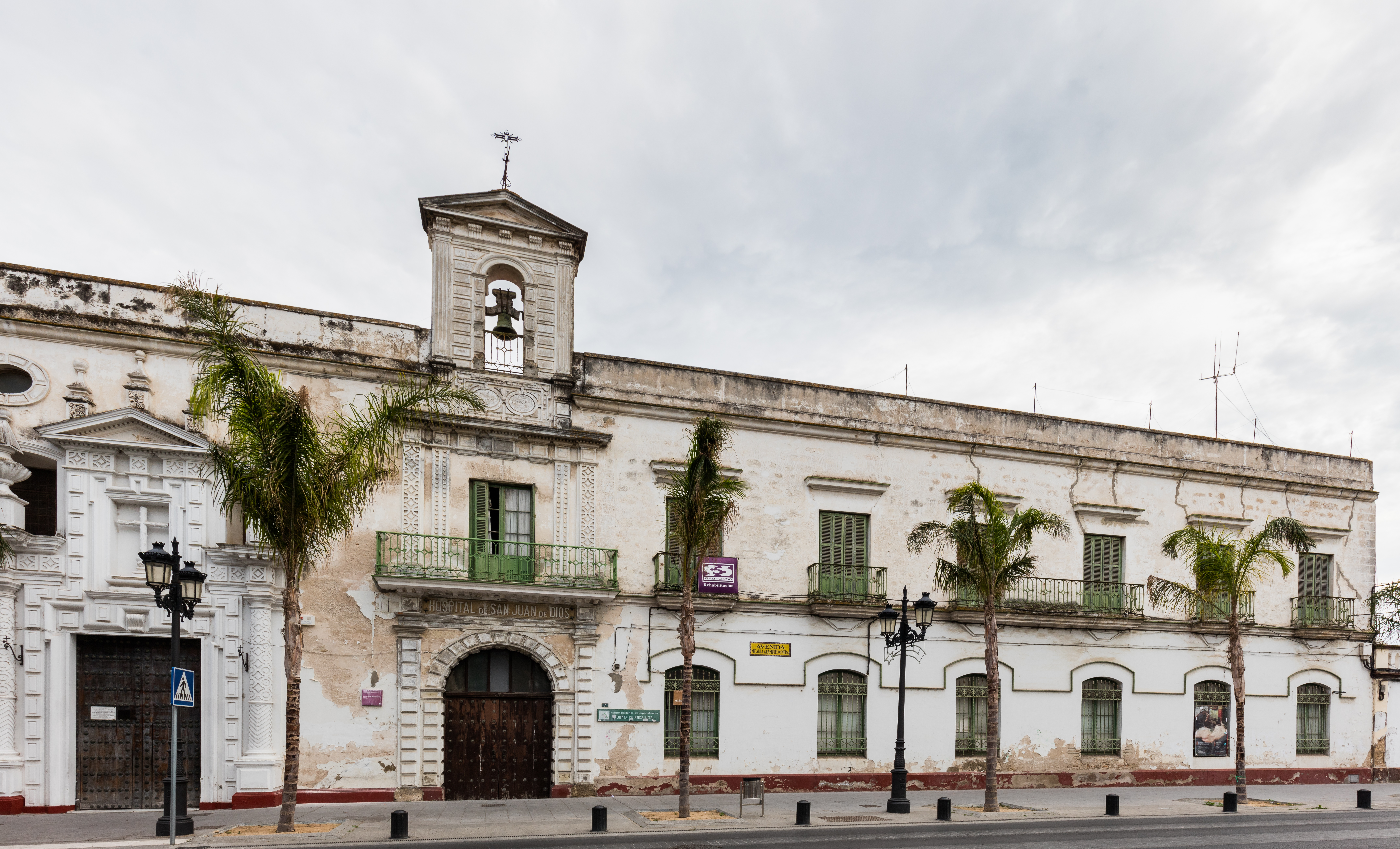 Hospital San Juan de Dios, El Puerto de Santa María, Cádiz, Spain